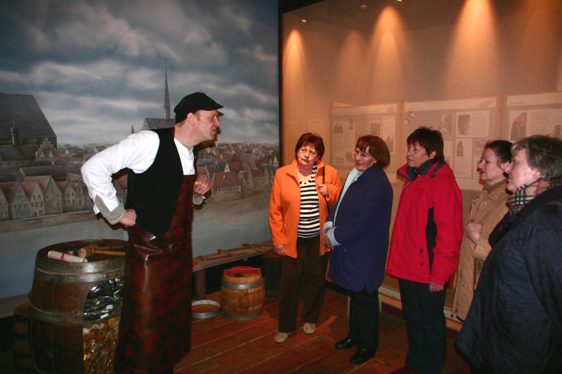 Bremer Geschichtenhaus („Story house of Bremen“) at Schnoor quarter: Barrel maker of Bremen, 1646